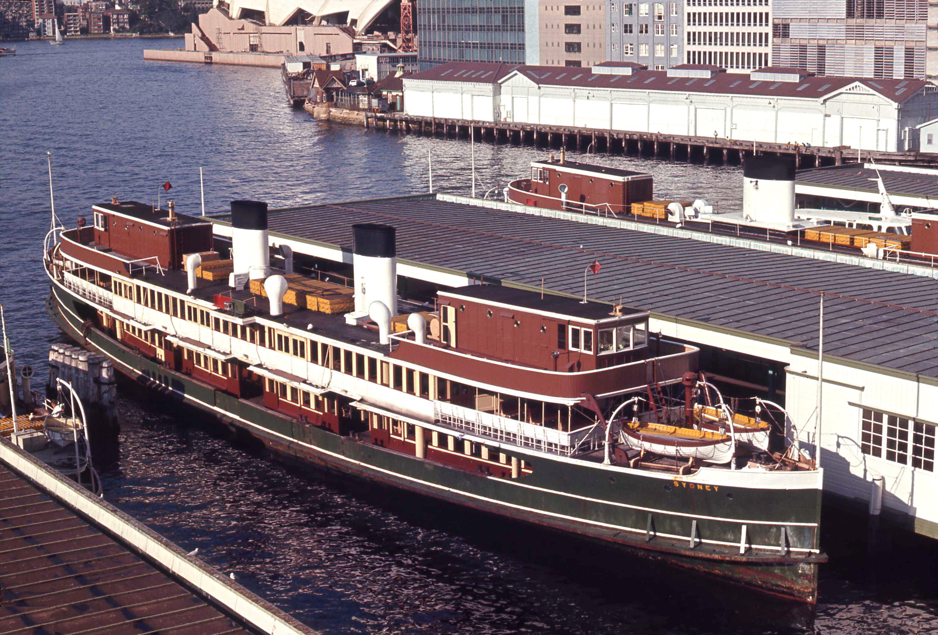 Sydney ferries BELLUBERA and BARAGOOLA at No 3 wharf Circular Quay Sydney 15 Feb 1970